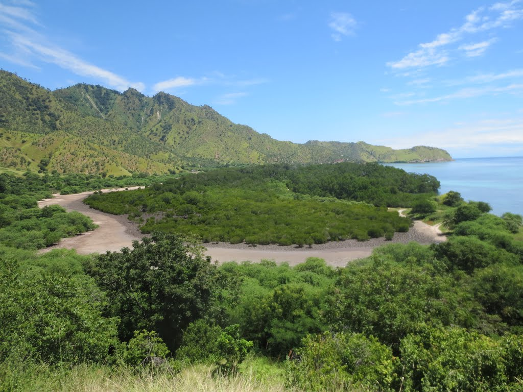 Mangrove patch behind Cristo Rei, east of One-Dollar-Beach